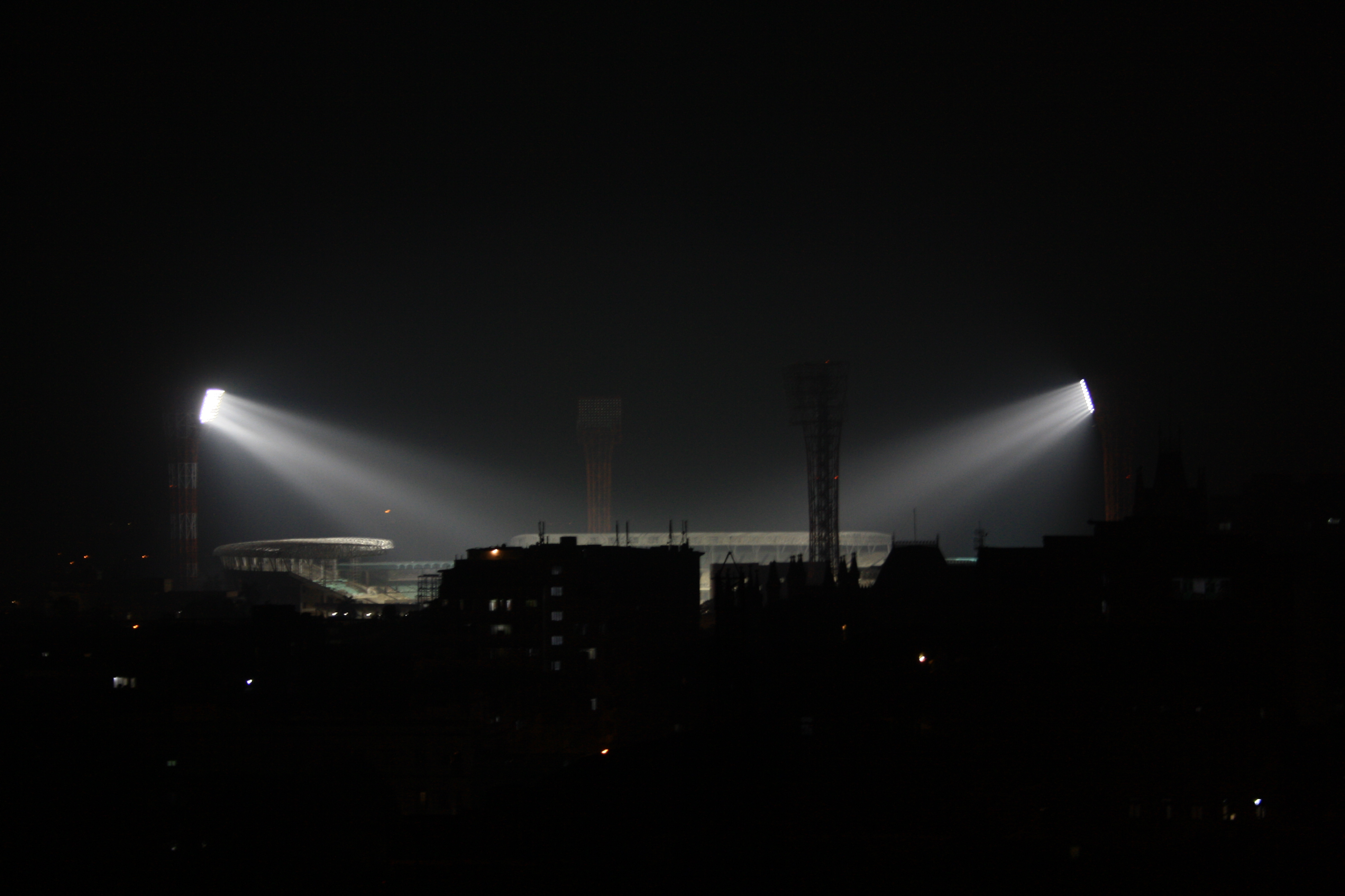 The view of Eden Garden Stadium at Night.